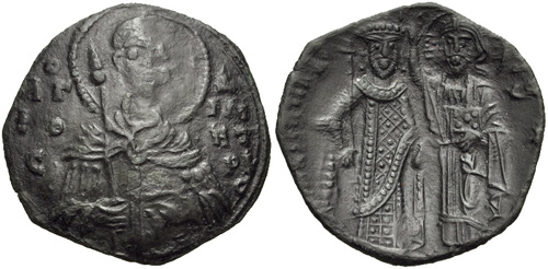 Billon trachy of Manuel Komnenos Doukas, Emperor of Thessalonica, ca. 1230-1237. Original description: Manuel Comnenus-Ducas. Despot of Thessalonica, 1230-1237. BI Trachy (20mm, 1.70 g, 6h). Type A, small module. Thessalonica mint. Nimbate half-length bust of St. Demetrius facing, holding spear and hilt of sword; O/AΓ/IO/C to left, Δ/HM/HT/RI/O to right / Manuel standing facing, holding cruciform scepter and anexikakia, and being crowned by Christ, nimbate, standing facing and holding Gospels; uncertain signa to right. DOC 3c; SB 2184. Good VF, dark green patina. Very rare.